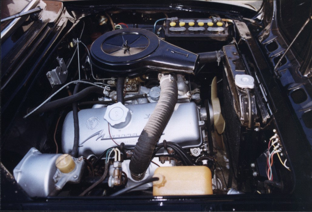 Moskwitch Typ 412IE, Year 1975, engine 1500 ccm OHC